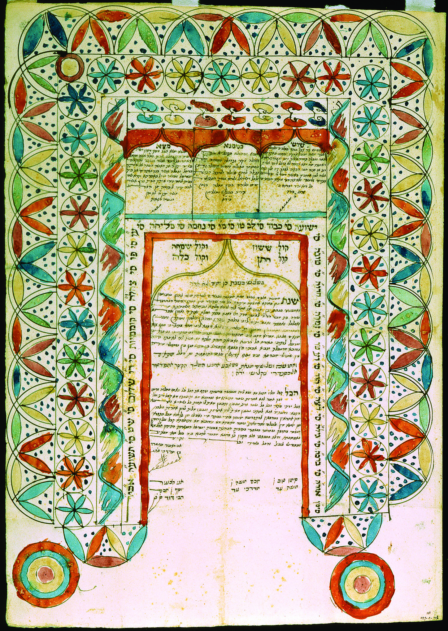 Taken from The Ketubot Collection of the National Library of Israel Achiska (Akhaltsik), Georgia, 1865 Groom: Phineas, son of Hananiah Bride: Sarah, daughter of Daniel Paper, watercolor, pen and ink H: 57, W: 40 cm Collection of The Israel Museum, Jerusalem The Feuchtwanger Collection, purchased and donated by Baruch and Ruth Rappaport, Geneva